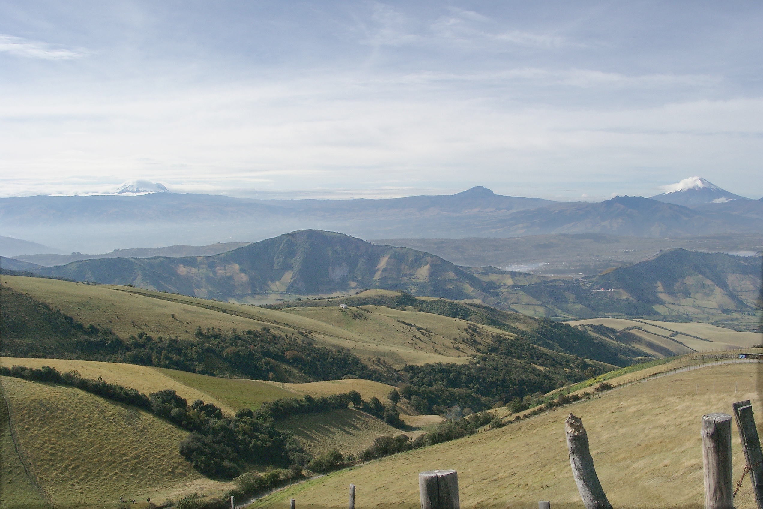 The Andes in Ecuador, with the volcanoes Antisana (left) and Cotopaxi (right), as seen from the Pichincha mountain.